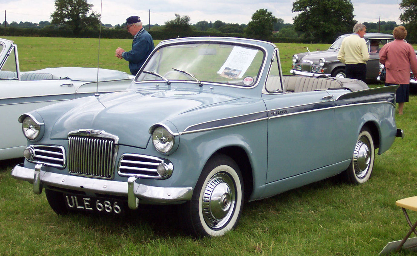 Summary Sunbeam Rapier Series 2 Convertible. Picture by David Parrott